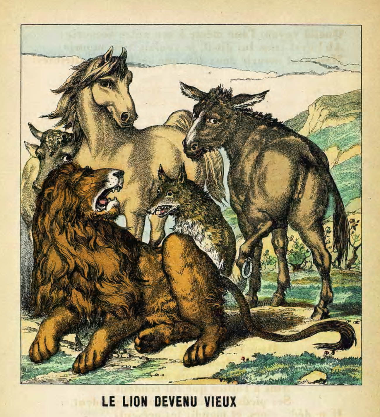 An illustration to La Fontaine's fable "The Lion Grown Old" by Charles Pinot (1860)